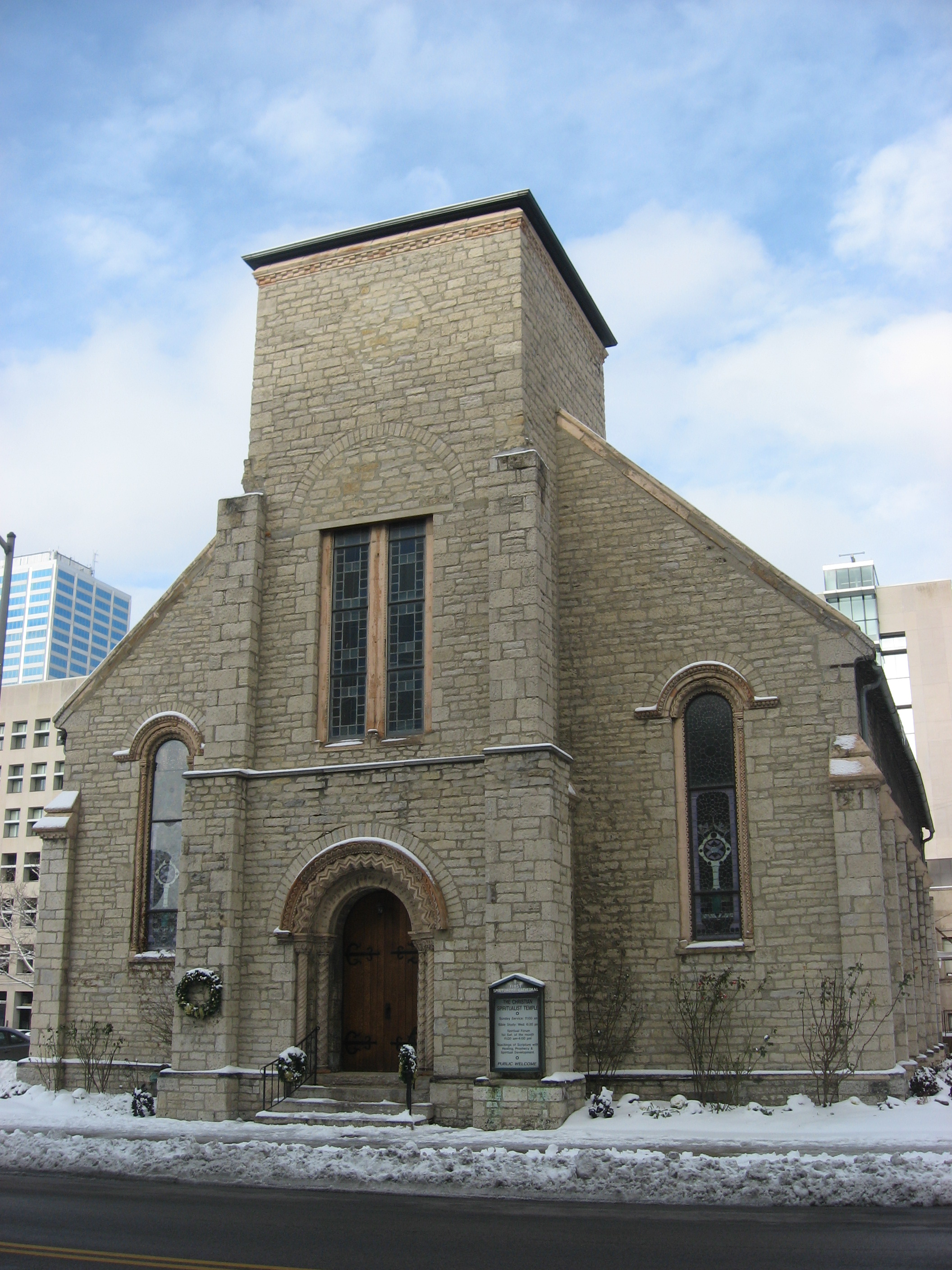 Front of the former Westminster Presbyterian Church (now the First Spiritualist Cathedral), located at 77 S. Sixth Street in downtown Columbus, Ohio, United States. Built in 1857, it is listed on the National Register of Historic Places.